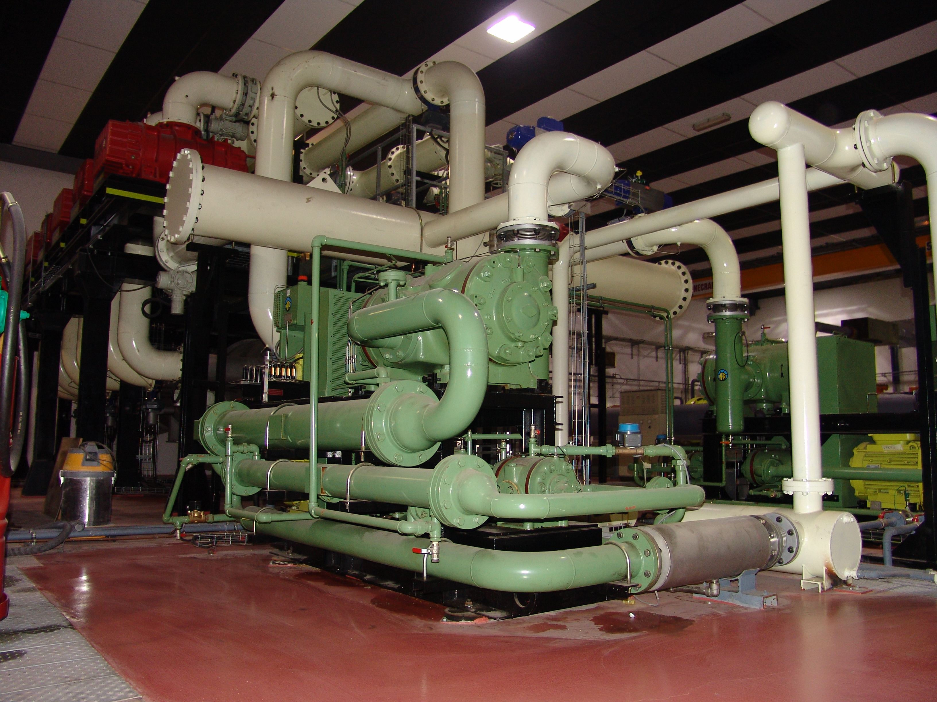 Pumping group of the Marhy facility (plateforme FAST, ICARE, CNRS Orléans)